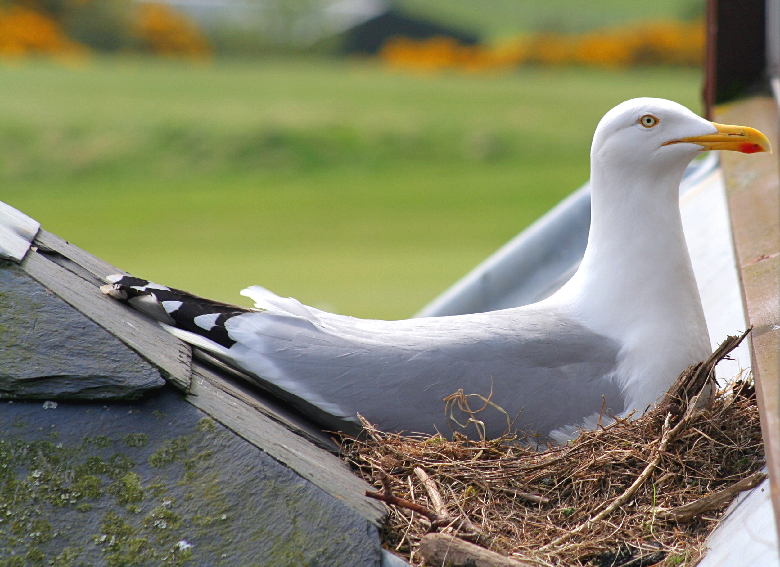 Female Herring Gull, Larus argentatus on her nest, Dornoch, Scotland